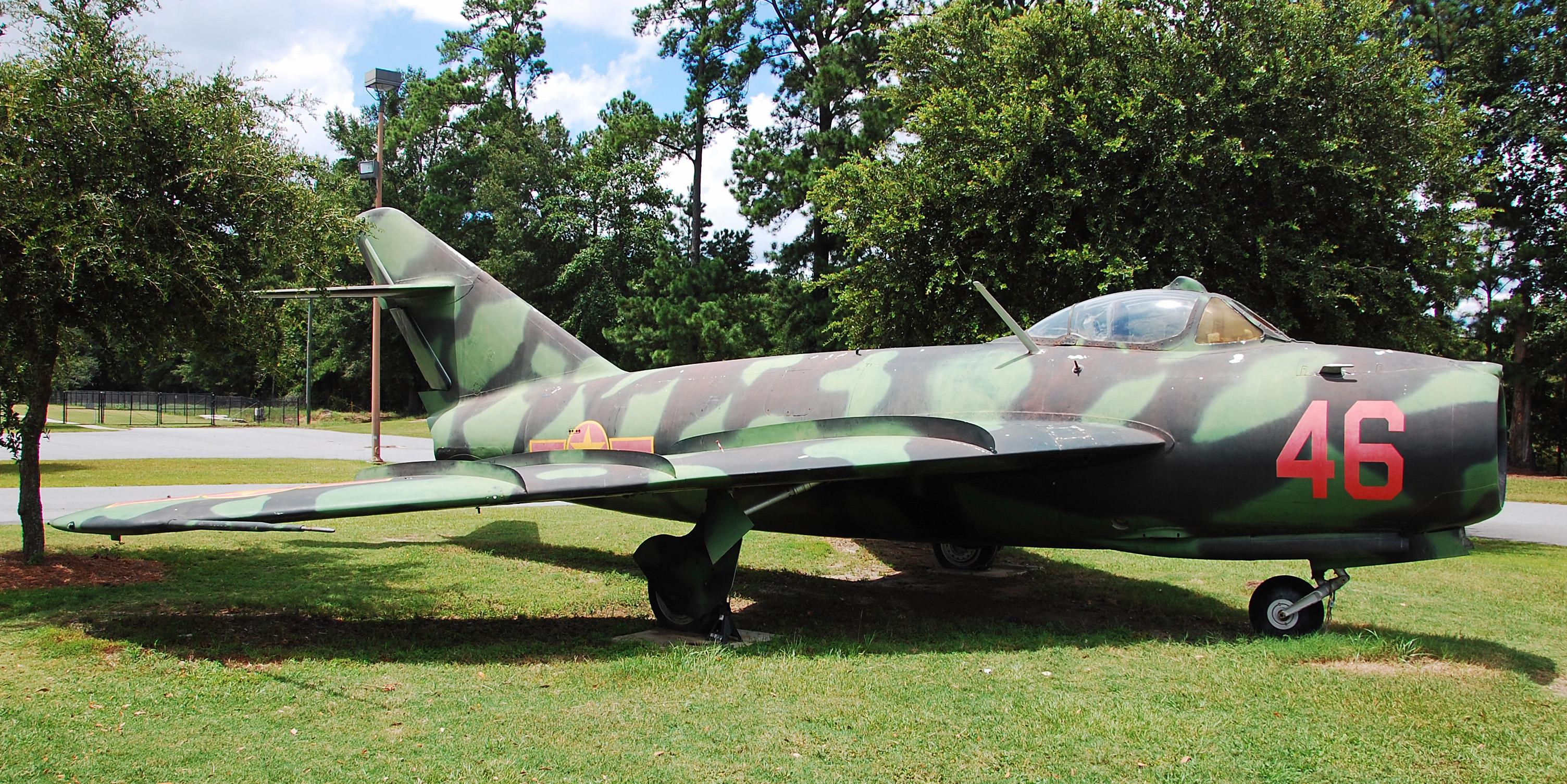 MiG 17A at the Mighty Eighth Air Force Museum near Savannah, Georgia